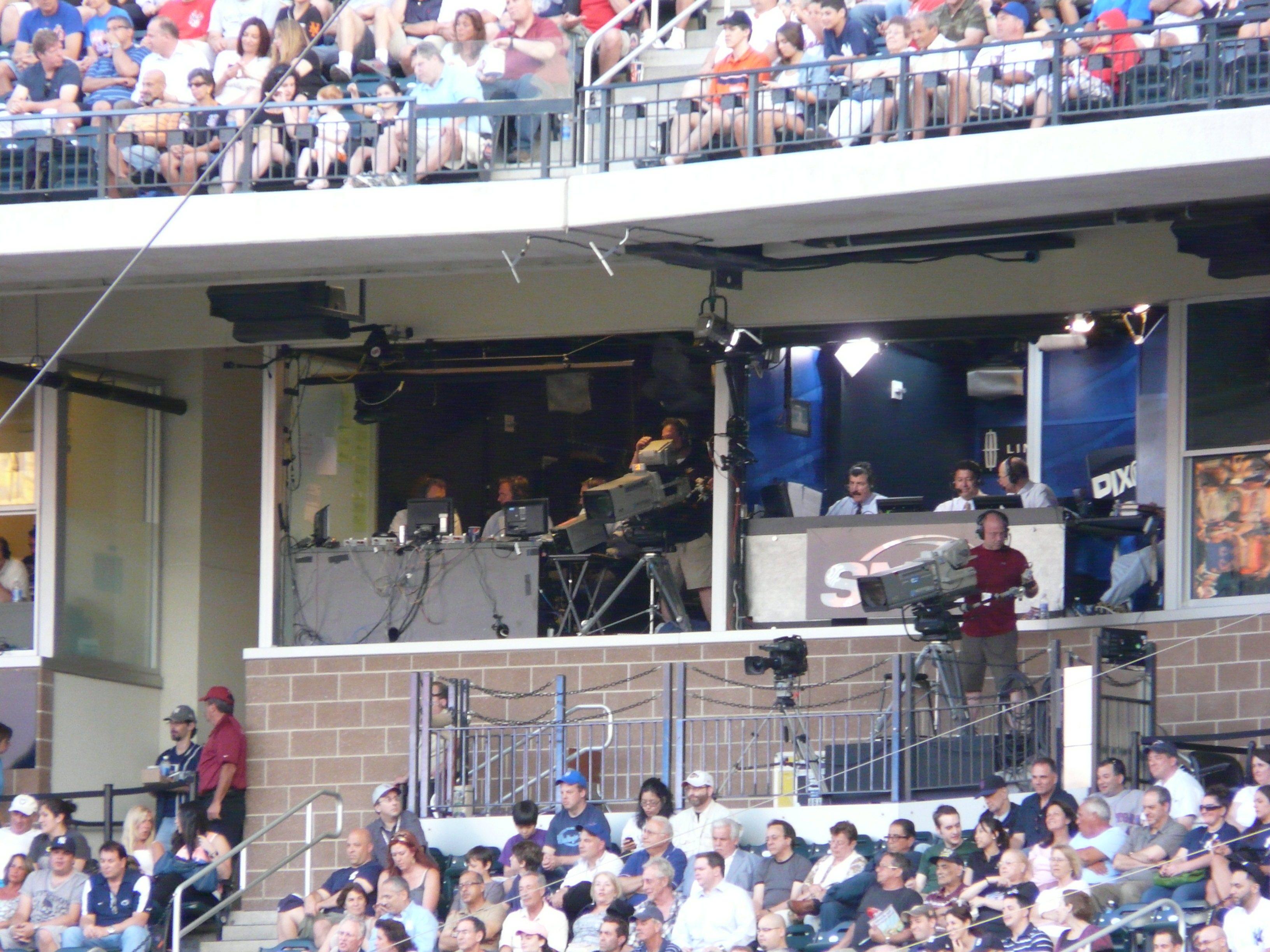 New York Yankees at New York Mets, July 1, 2011. Michael Kay, Al Leiter and David Cone for YES. Keith Hernandez (who you can easily see), Ron Darling and Gary Cohen for SNY